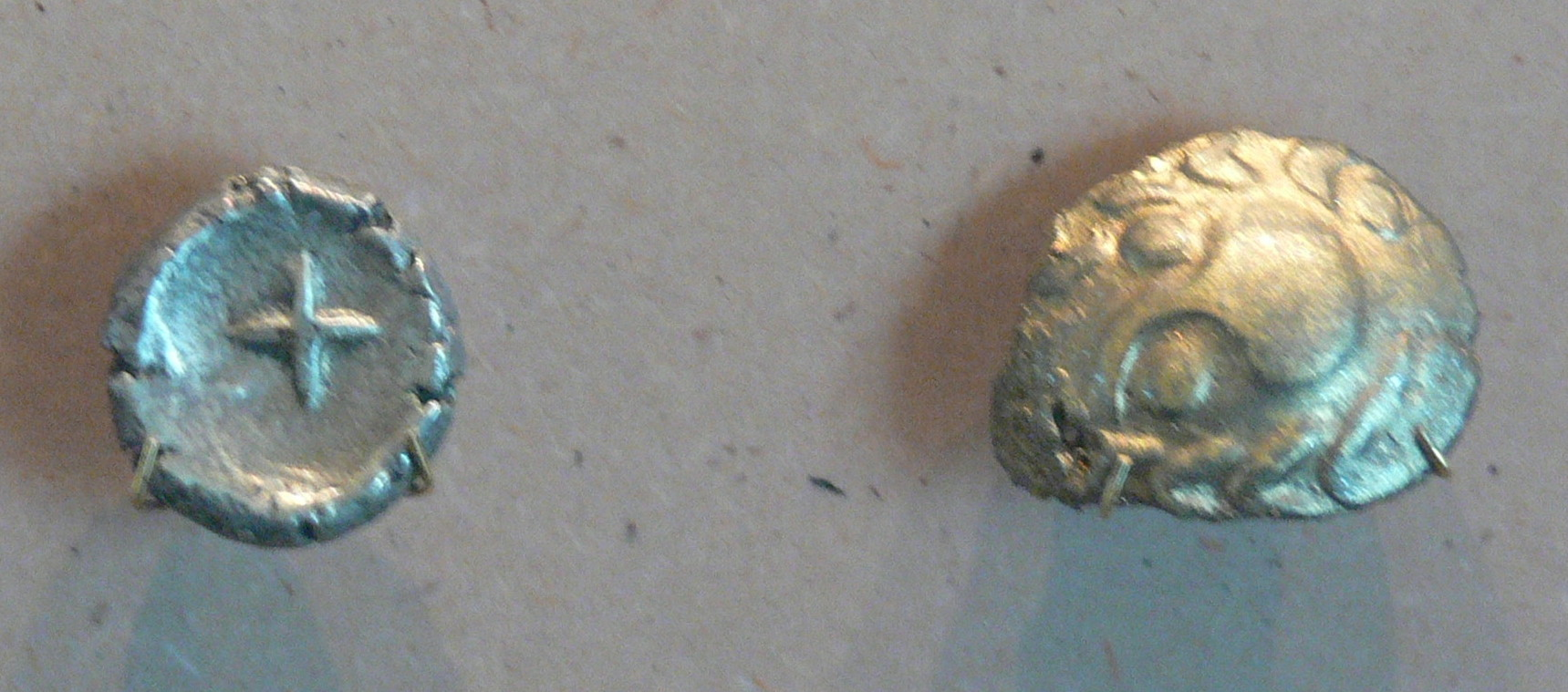 Celtic Museum Manching ( Bavaria ). Celtic coins with star and bird´s head from Manching.